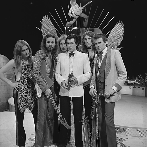 Roxy Music in AVRO's TopPop (Dutch television show) in 1973